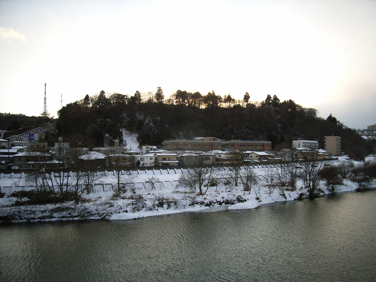 Mount Atago and Hirose River. Sendai, Miyagi prefecture, Japan.